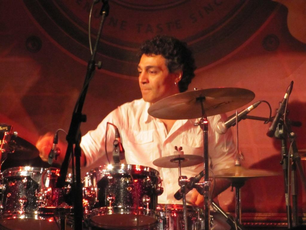 Doron Raphaeli